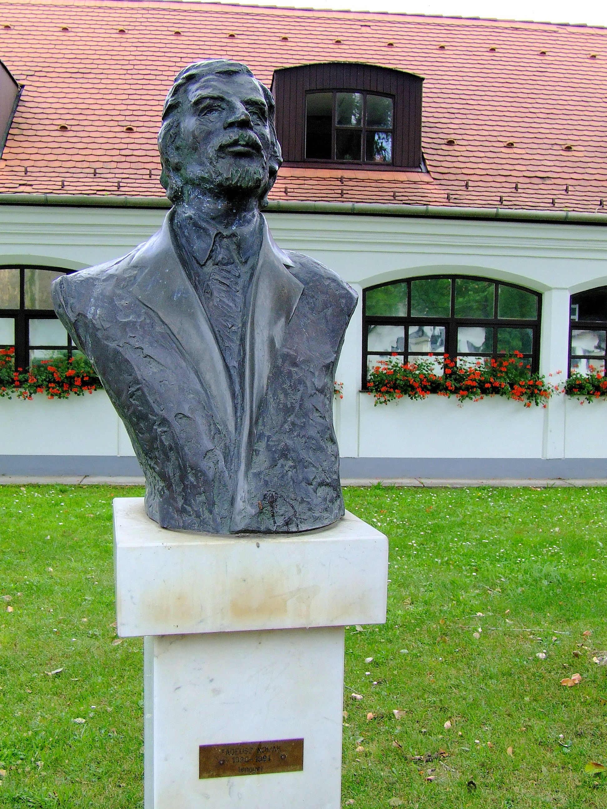 Tadeusz Nowak by Ewa Fleszar (1998 Bronze bust) in Kiskőrös, Petőfi Sándor Sculpture Park